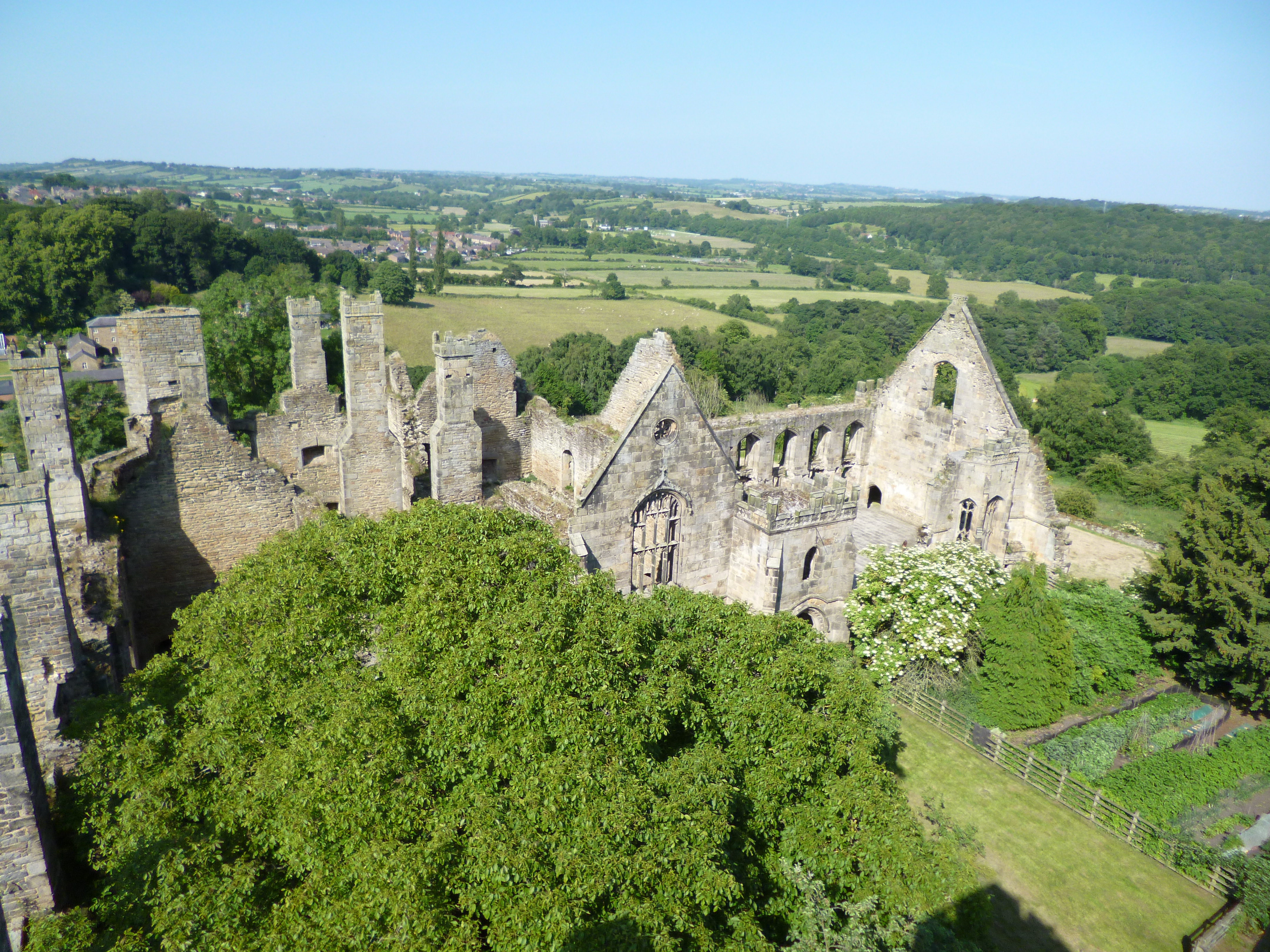 Wingfield Hall Wikidata has entry Q26402876 with data related to this item.